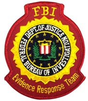 The patch worn by the Buffalo FBI office Evidence Response Team (ERT) members.